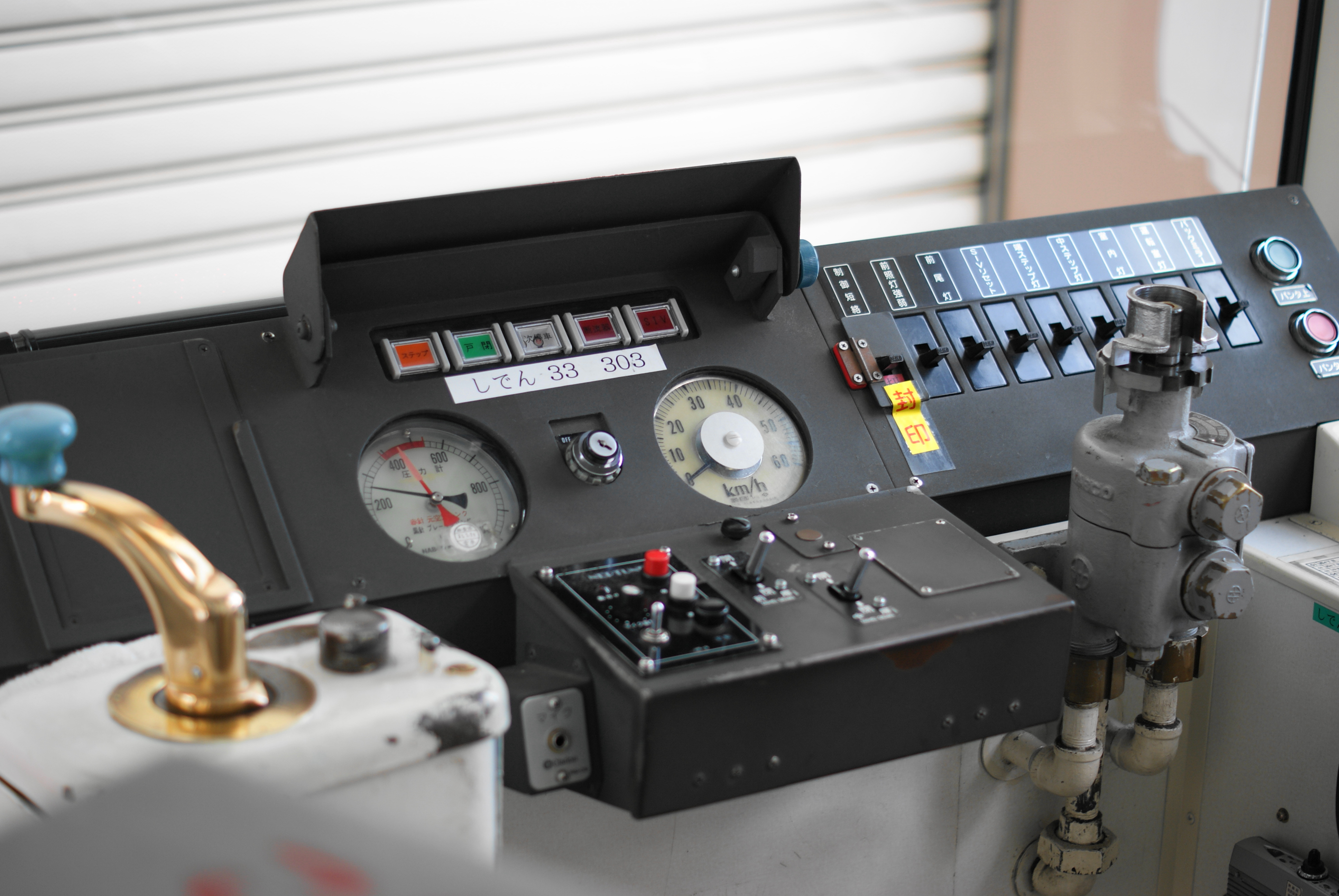 Control board of Sapporo Street Car 3300 (3303). Sony DSLR-A330